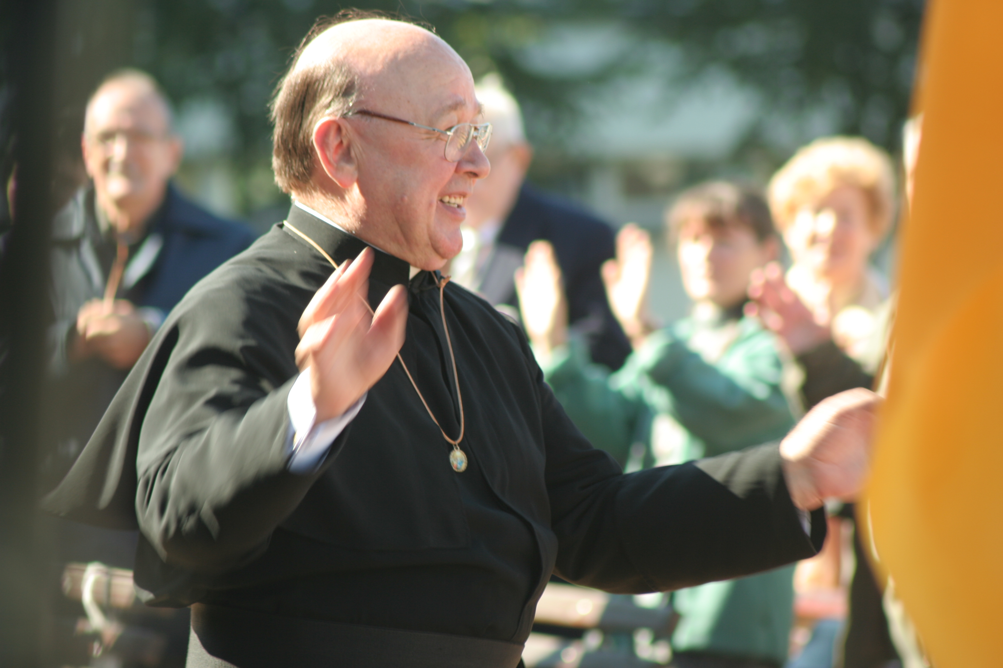 Father Czesław Parzyszek, Pallottine.